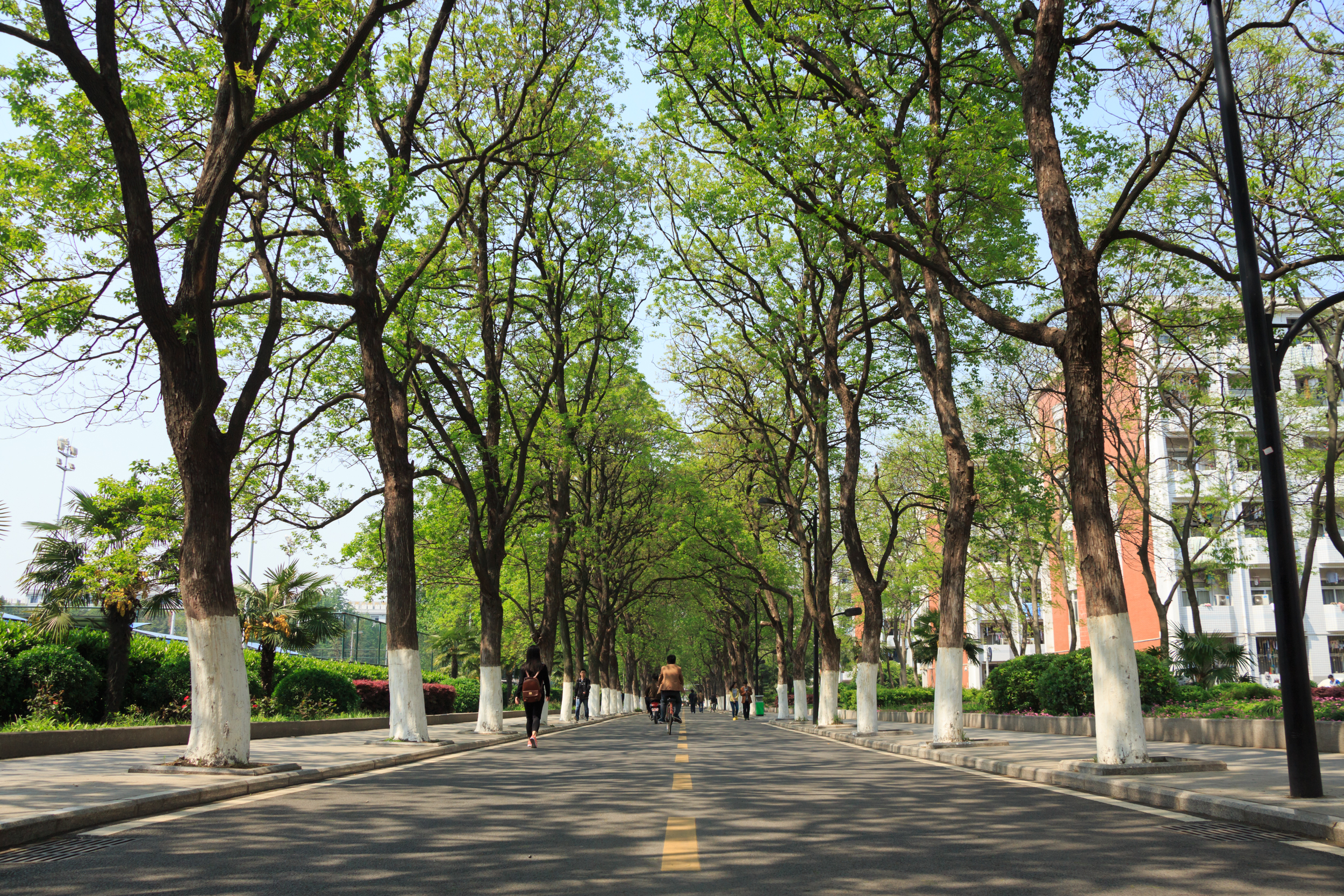 Road on Camous